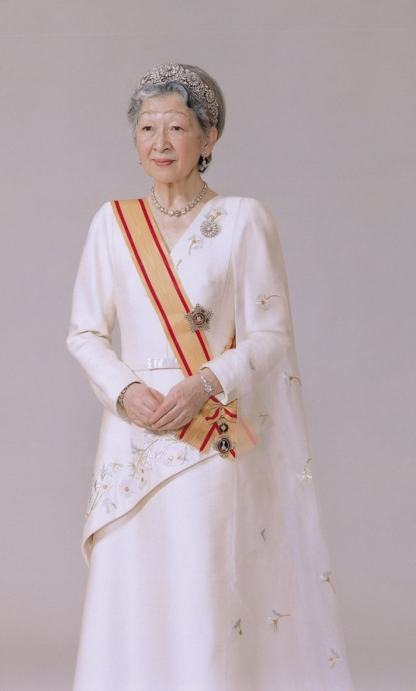 Emperor Akihito acceded to the throne as the 125th Emperor on January, 1989.